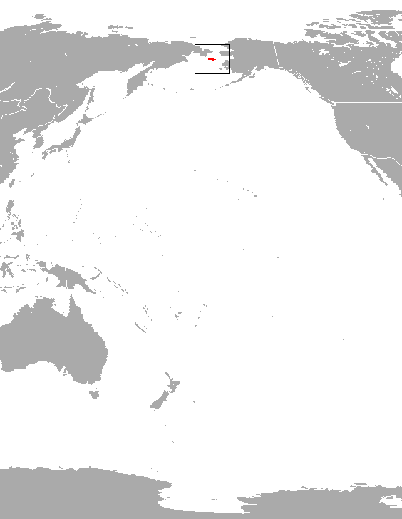 Saint Lawrence Island Shrew (Sorex jacksoni) range